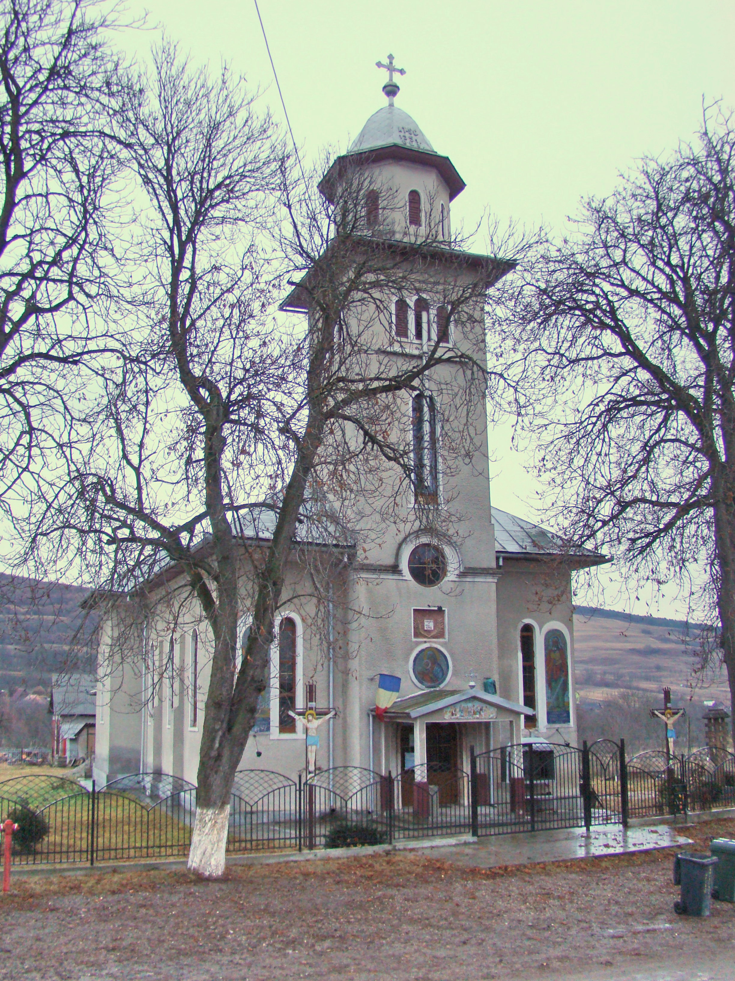 Aluniș, Cluj county, Romania